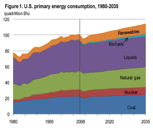 US energy US 1980 to 2008 actual consumption and projections to 2035 US Government document--public domain 2010 URL =